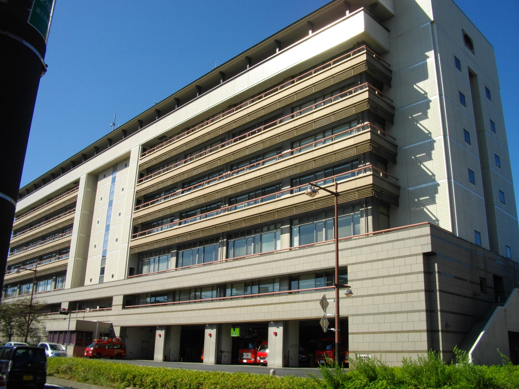 Narita City Fire Department